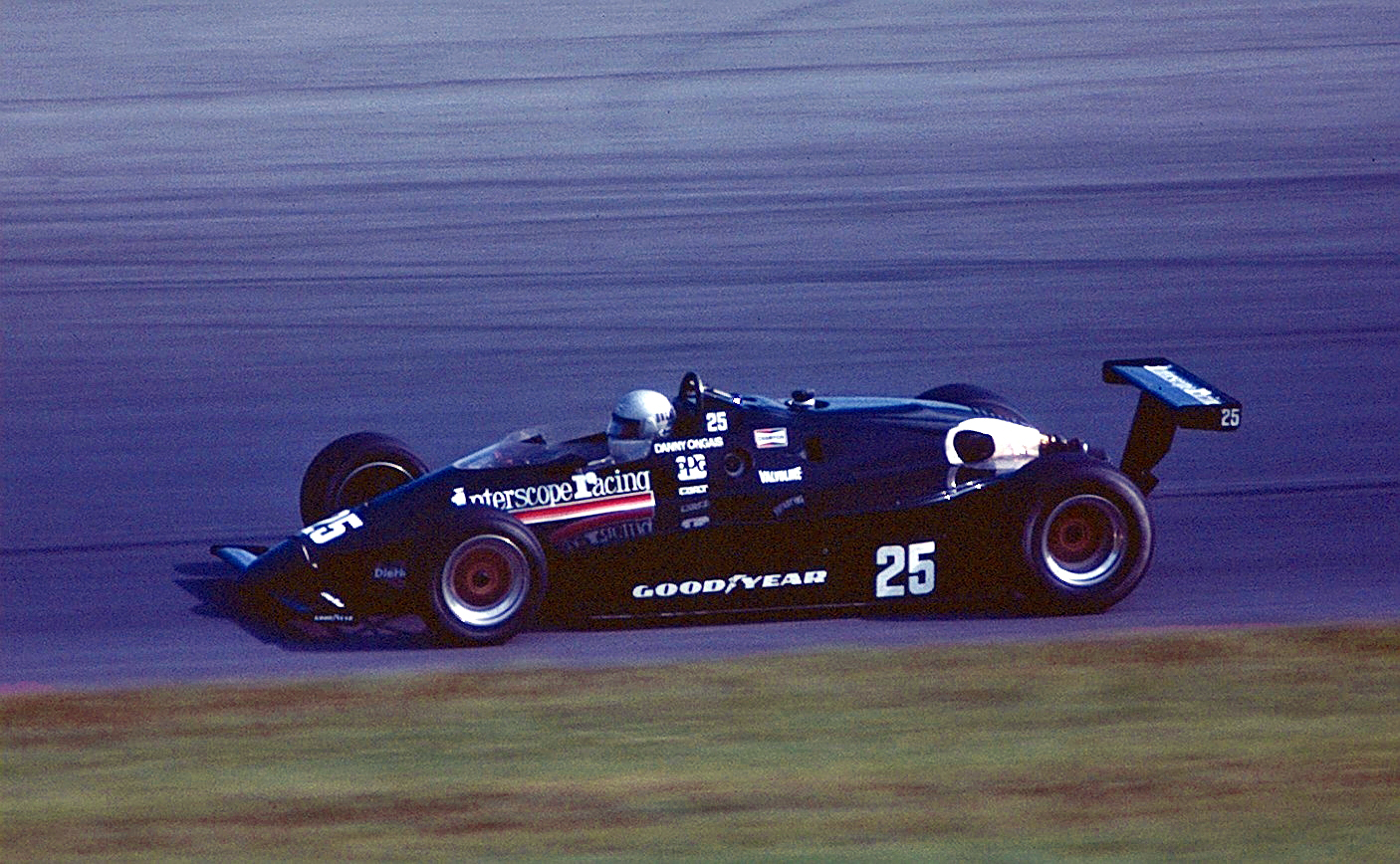 The 1984 IndyCar for driver Danny Ongais. Photo by Ted Van Pelt